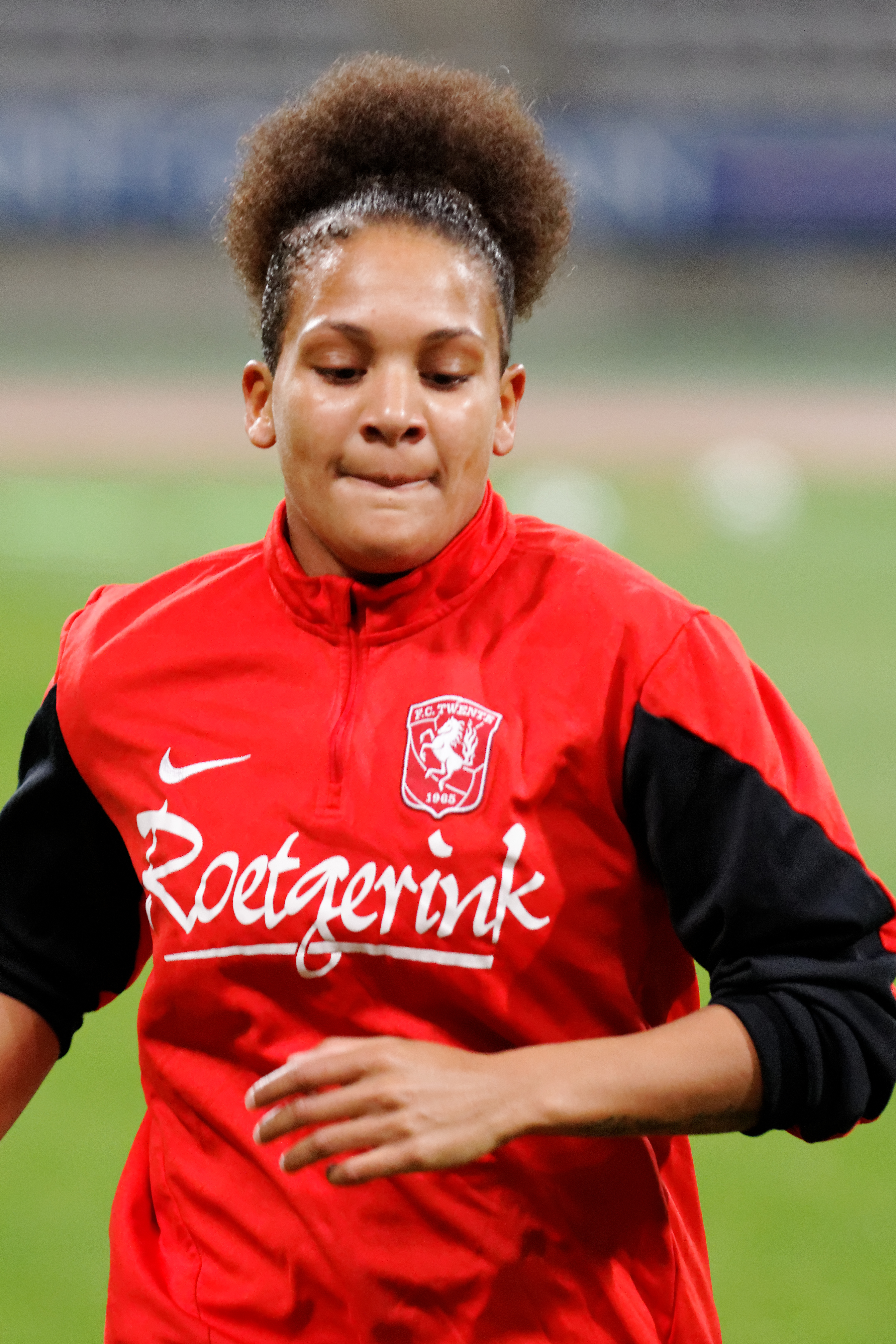 UEFA Women's Champions League, PSG - Twente, 15 October 2014